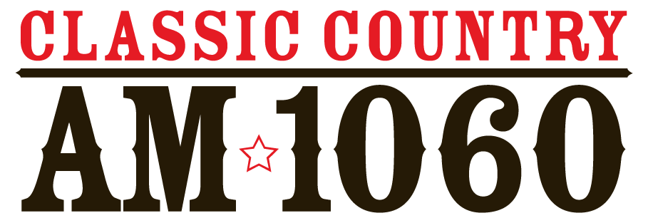 Former station logo for CKMX Calgary